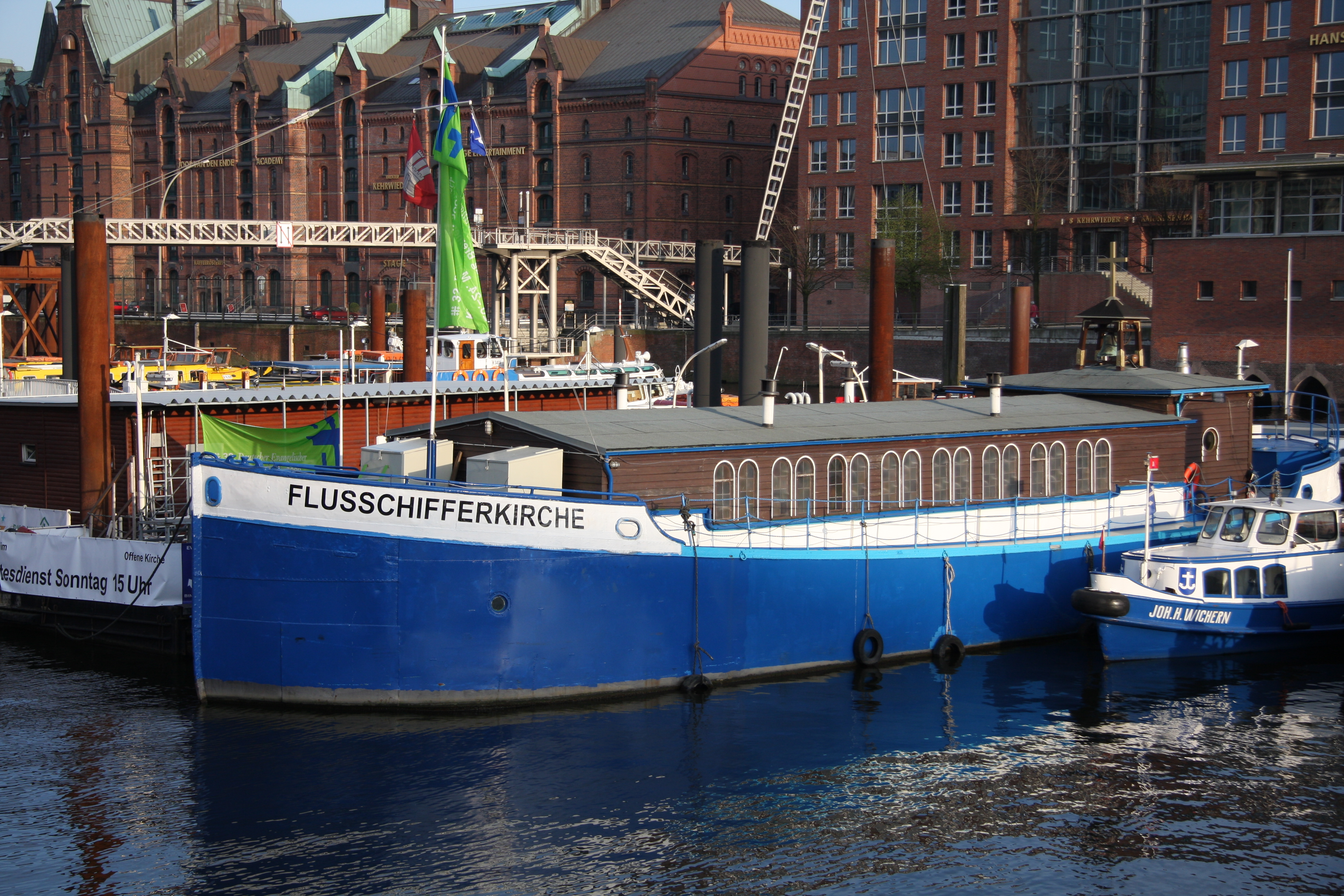 Boatman's Church in Hamburg, Germany